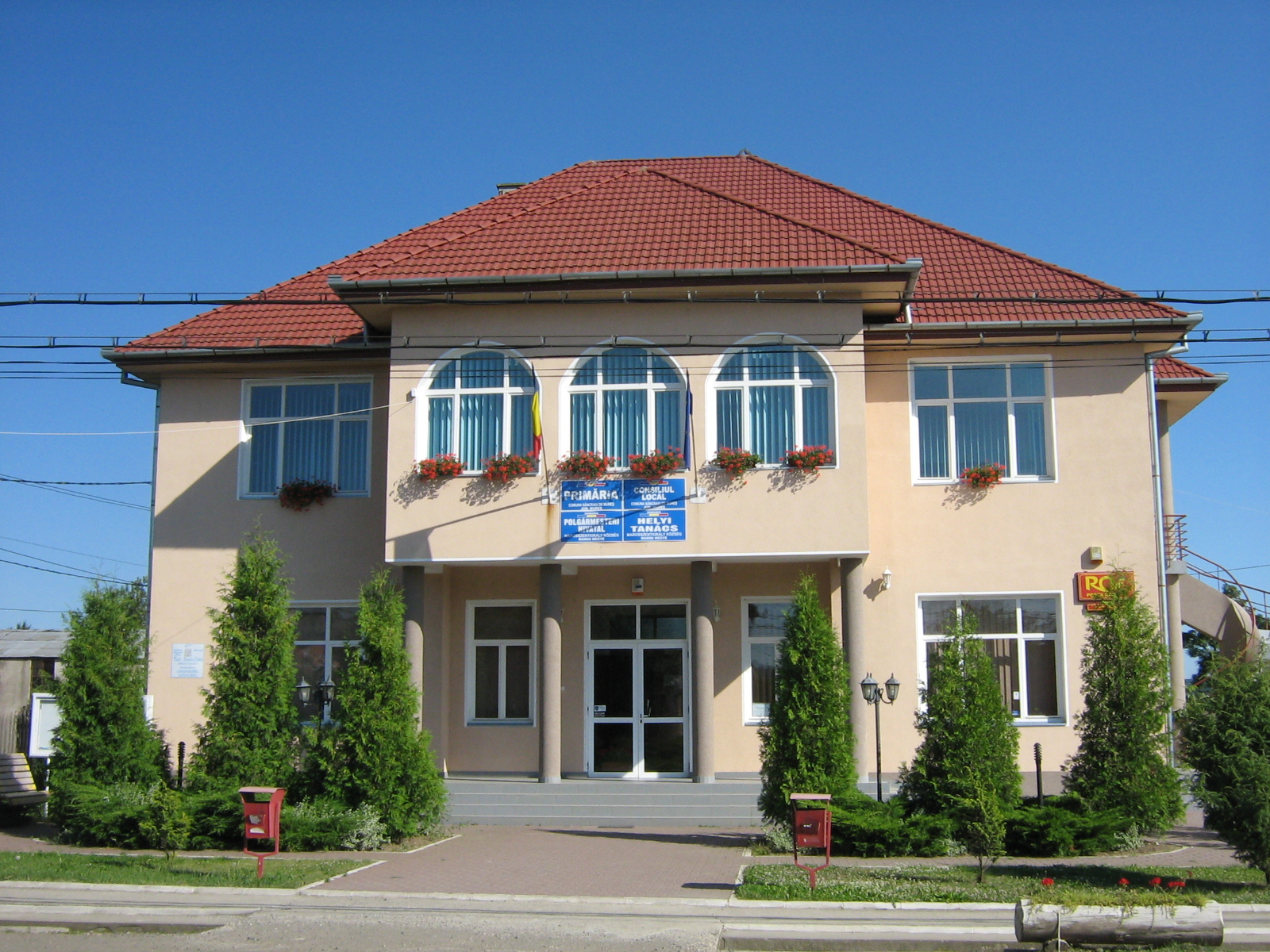 Sâncraiu de Mureş